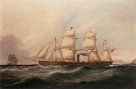 Painting of the SS Sarah Sands